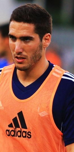 Joseba Zaldúa